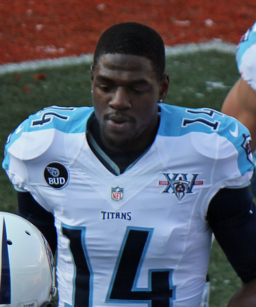 Michael Preston, a player in the National Football League.